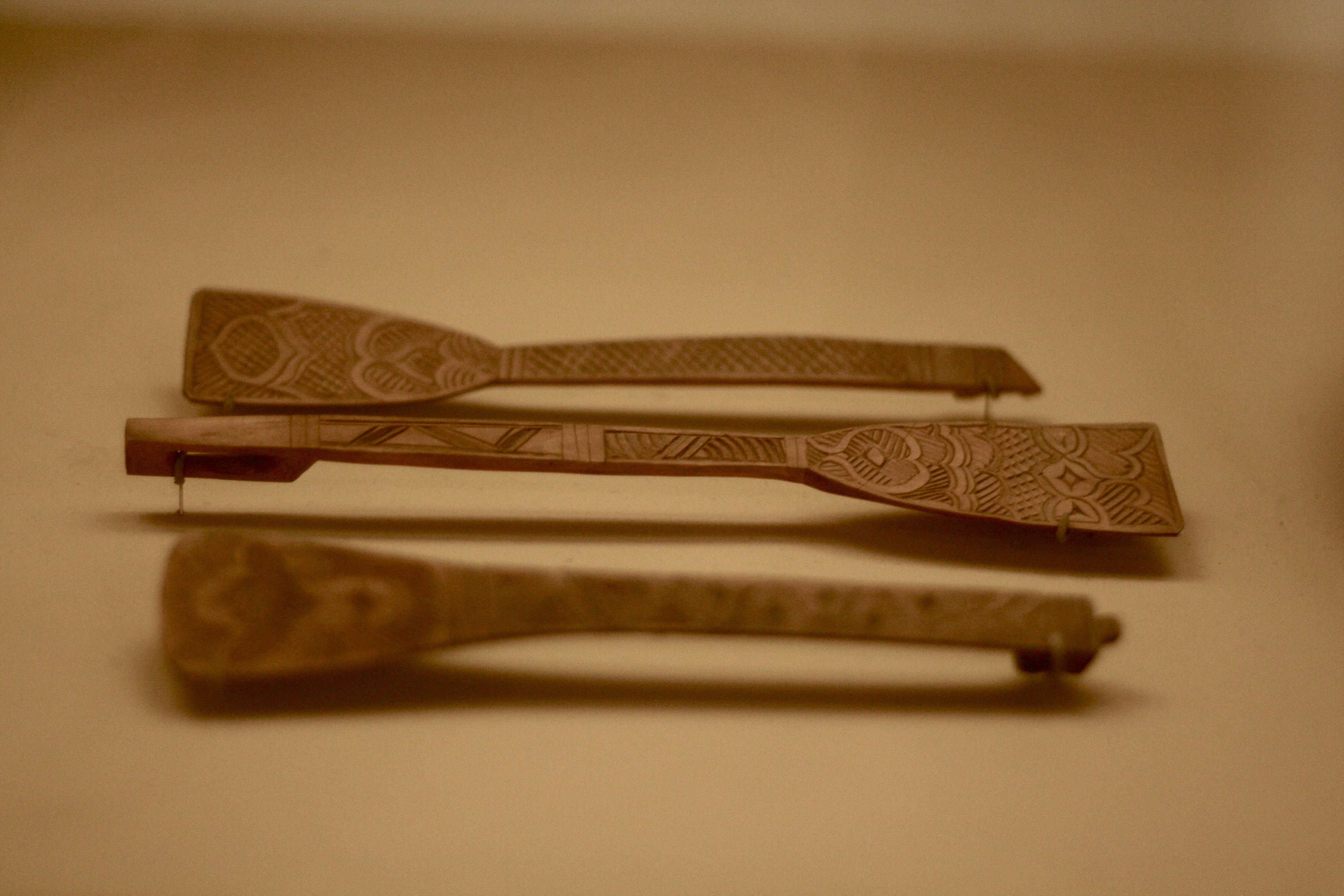 Ainu. Parapasuy (Spoons), late 19th-early20th century. Wood. Brooklyn Museum, Gift ofHerman Stutzer, 12.204. Ainu. Parapasuy (Spoons), late 19th-early20th century. Wood. Brooklyn Museum, MuseumExpedition 1912, purchased with funds given by Herman Stutzer, 12.208. Ainu. Parapasuy (Spoons), late 19th-early 20th century. Wood. Brooklyn Museum, Museum Expedition 1912, purchased with funds given by Herman Stutzer, 12.210. Wikipedia Loves Art at the Brooklyn Museum This photo of item # [1] at the Brooklyn Museum was contributed under the team name "one_click_beyond" as part of the Wikipedia Loves Art project in February 2009. Brooklyn Museum The original photograph on Flickr was taken by luluinnyc—please add a comment to the original Flickr page whenever a use has been made on Wikipedia or another project. Project galleries on Flickr: this institution, this team